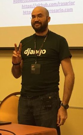 Roberto Rosario at PyCon Italia 2015